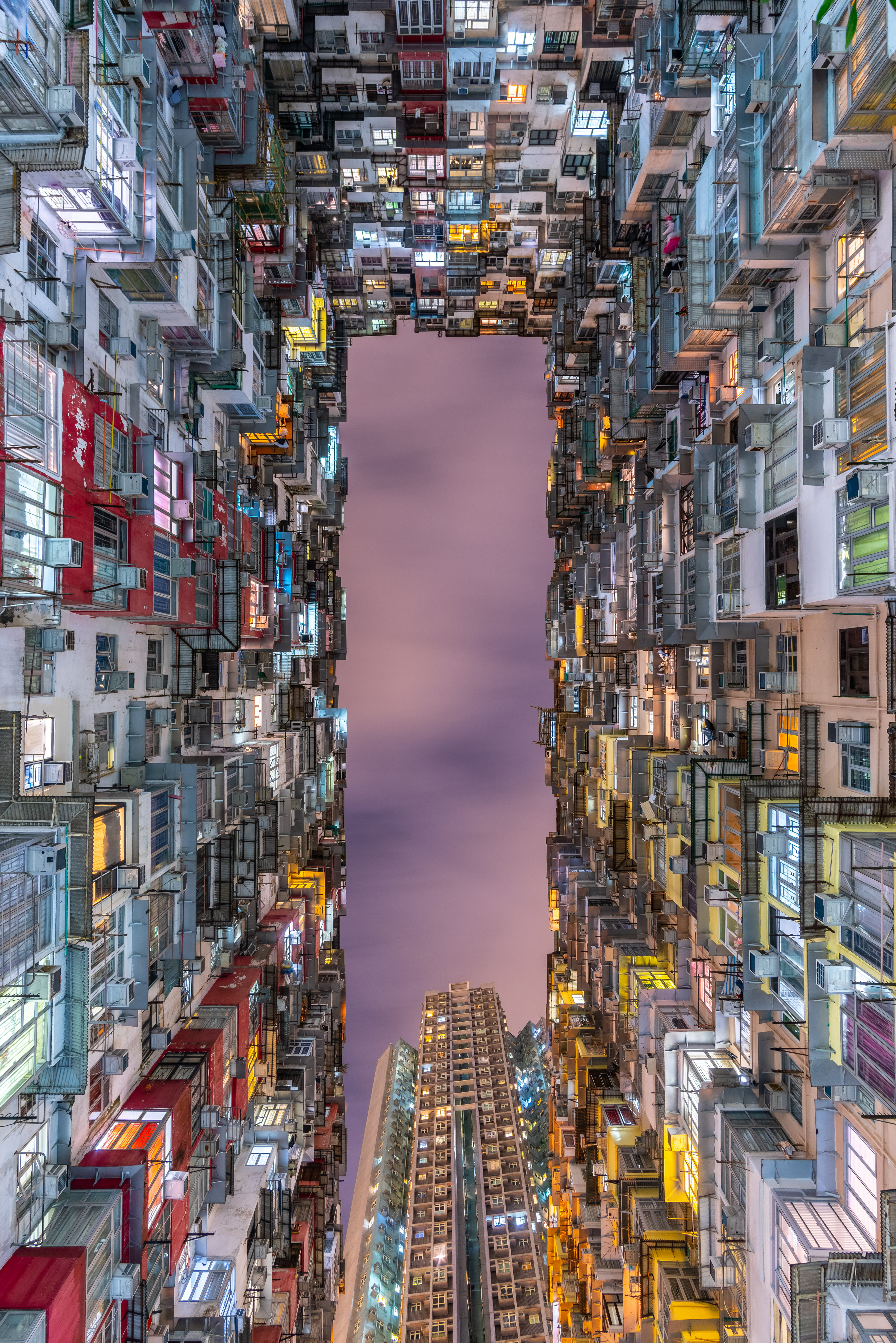 Looking upward at the now famous monster building, a typical example of dense apartments construction, in Quarry Bay, Hong Kong.